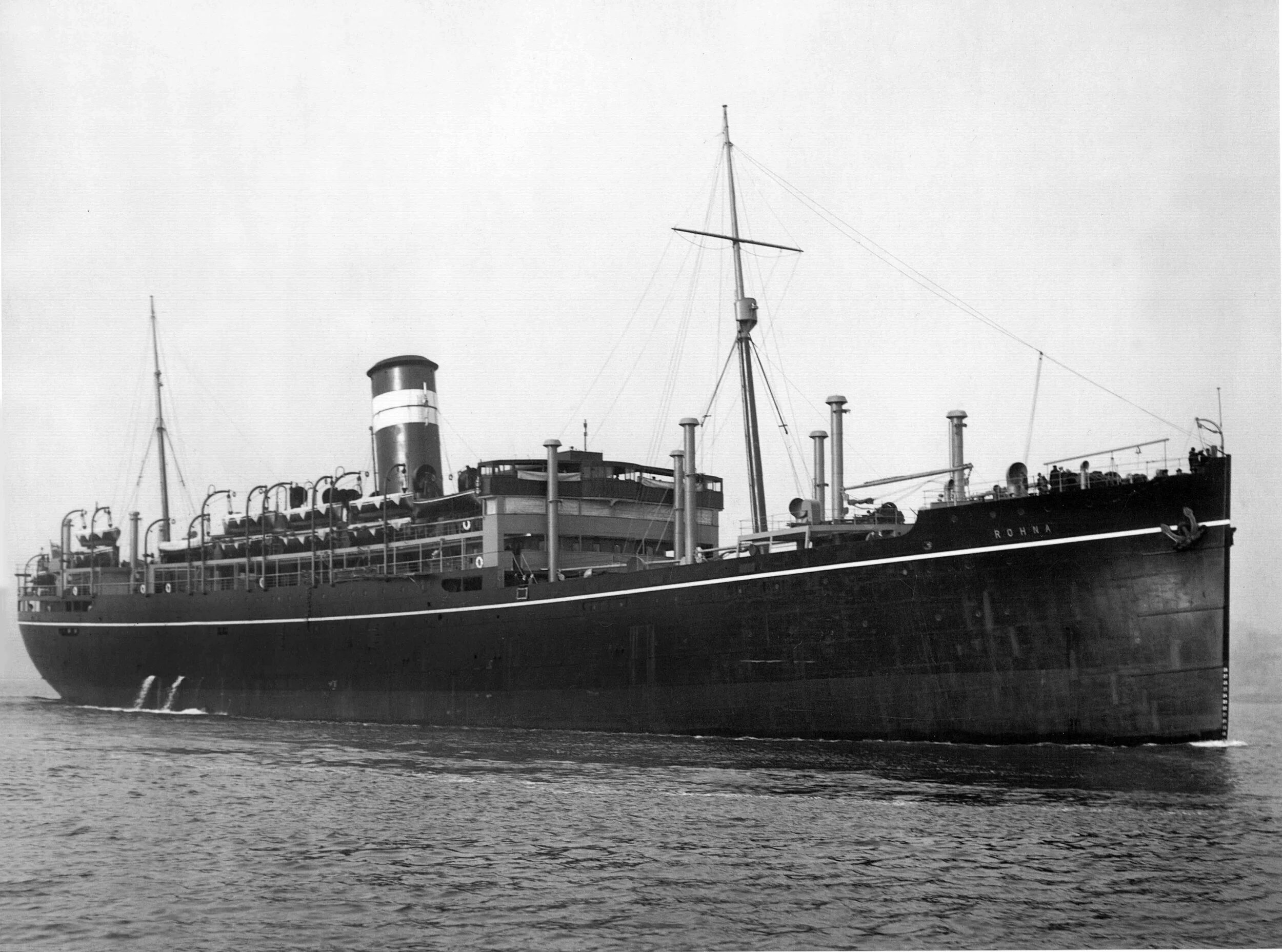 HMT Rohna